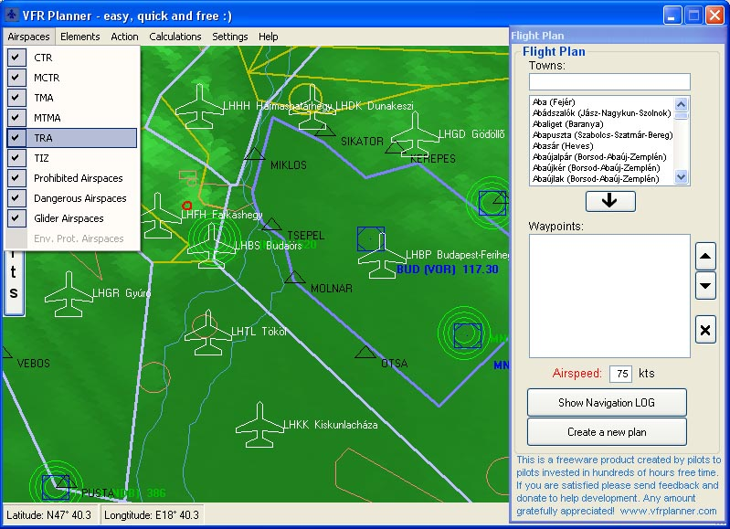 VFR Planner screenshot